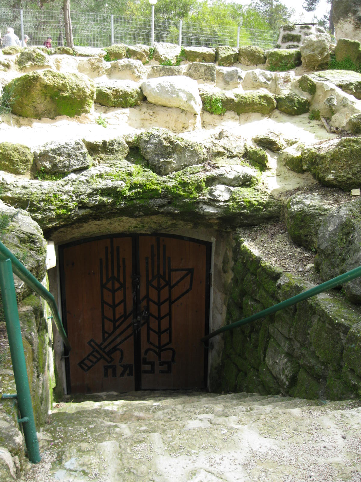 מערת הפלמ"ח במשמר העמק